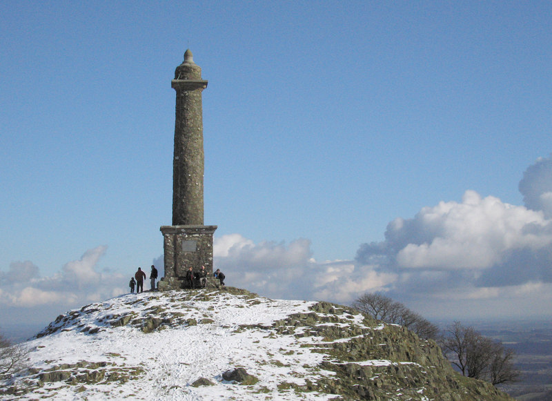 Snow at Rodney's Pillar (365m) Rodney's Pillar was built in 1781/82 to commemorate the victory of Admiral Rodney over the French in the West Indies by ships built of Powysland Oaks. As you can see it has a bit of a lean to the right (South East)